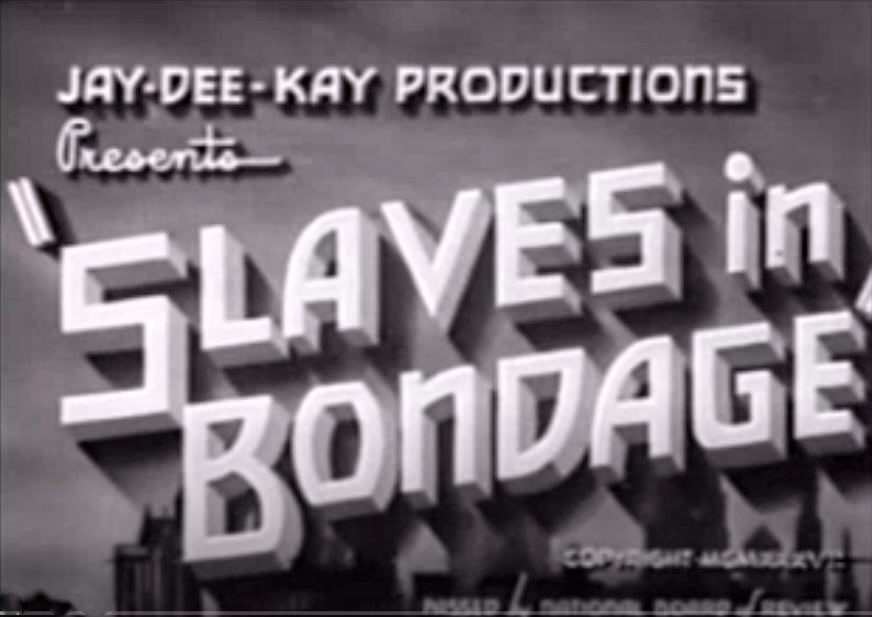 Title card for the American crime drama film film Slaves in Bondage (1937), screen capture from the Internet Archive.